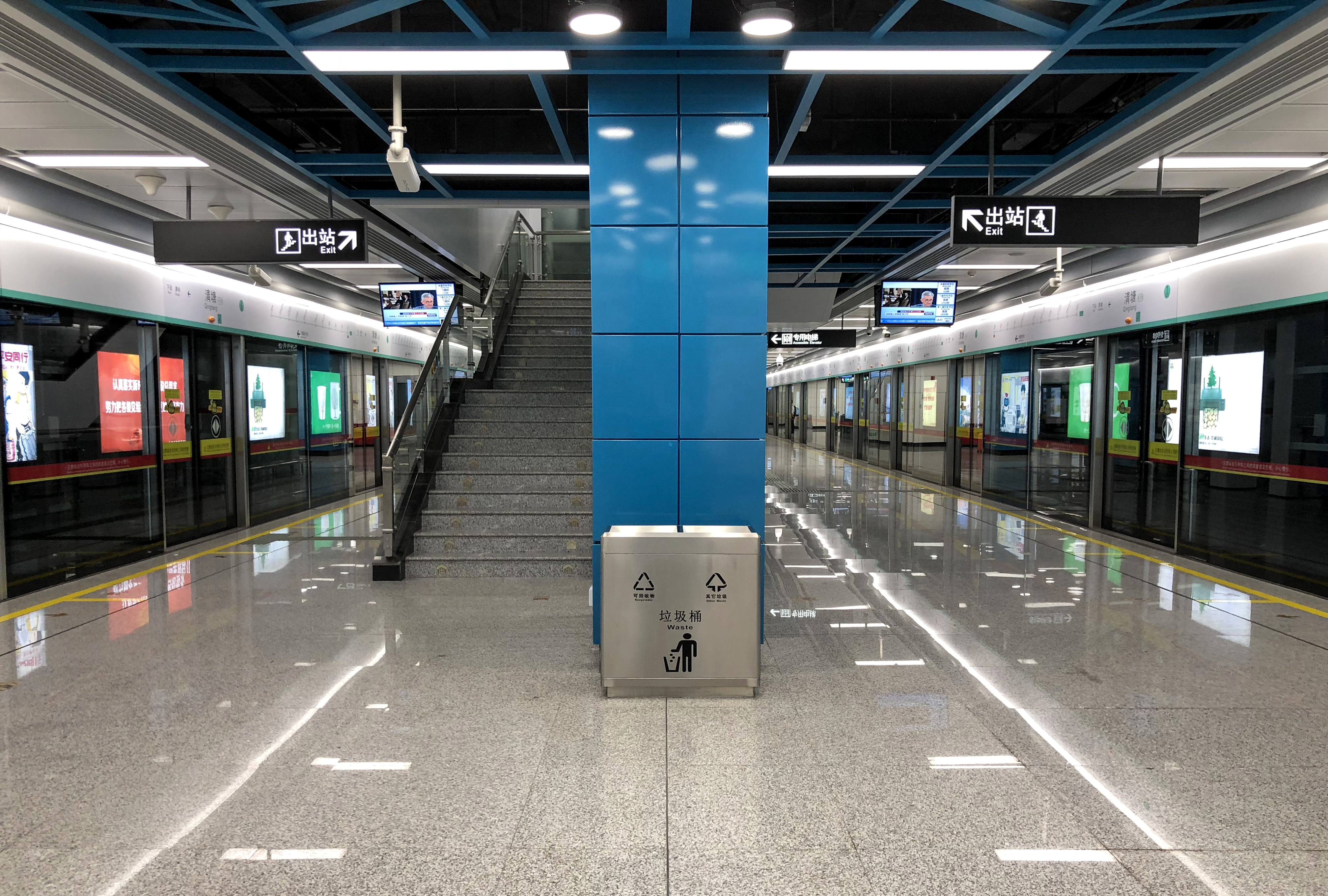 Chistye Prudy? Just its Chinese translation, which is also the name of a village in Xinya, Huadu, Guangzhou, near Baiyun Airport. If someone fancies plane spotting, he may hail a car from this station to Tuanjiecun, just next to the west runway of ZGGG!